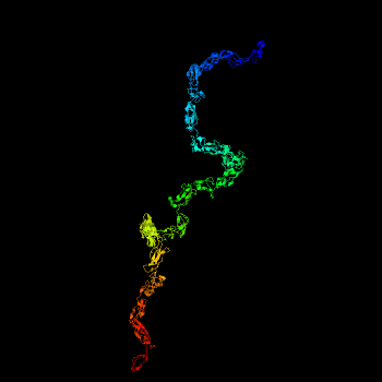 dos